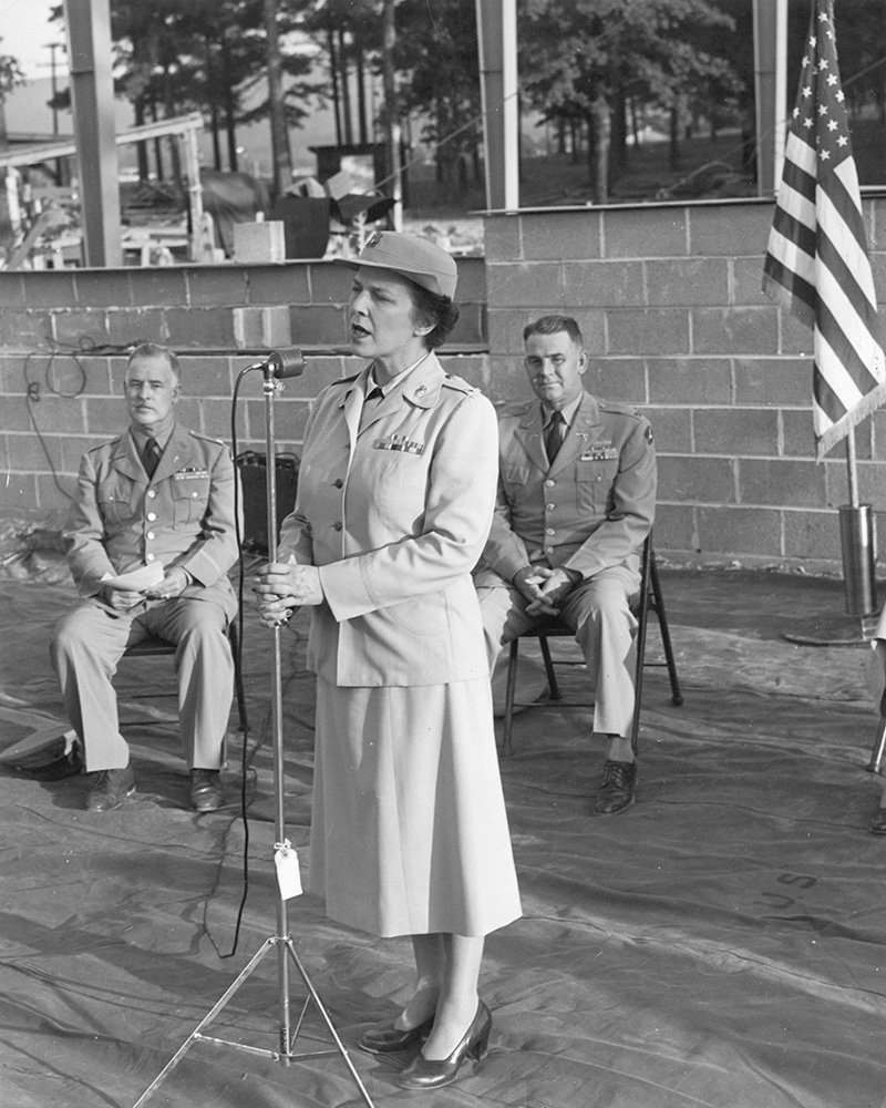 From the back of the photograph: WAC Center, Fort McClellan, Ala.-- A special guest, Col. Irene O. Galloway, Director, WAC, greets Wac and post personnel gathered at the cornerstone laying ceremony, which highlighted the constrcution of the new WAC Chapel. In the background, left to right, are Chaplain (Lt. Col.) Arthur O. Hoppe, post chaplain, and Col. W.W. Moore, post commander. (U.S. ARMY PHOTO) Photographer: Cpl. Ronda G. Morgan 28 Sep 1955